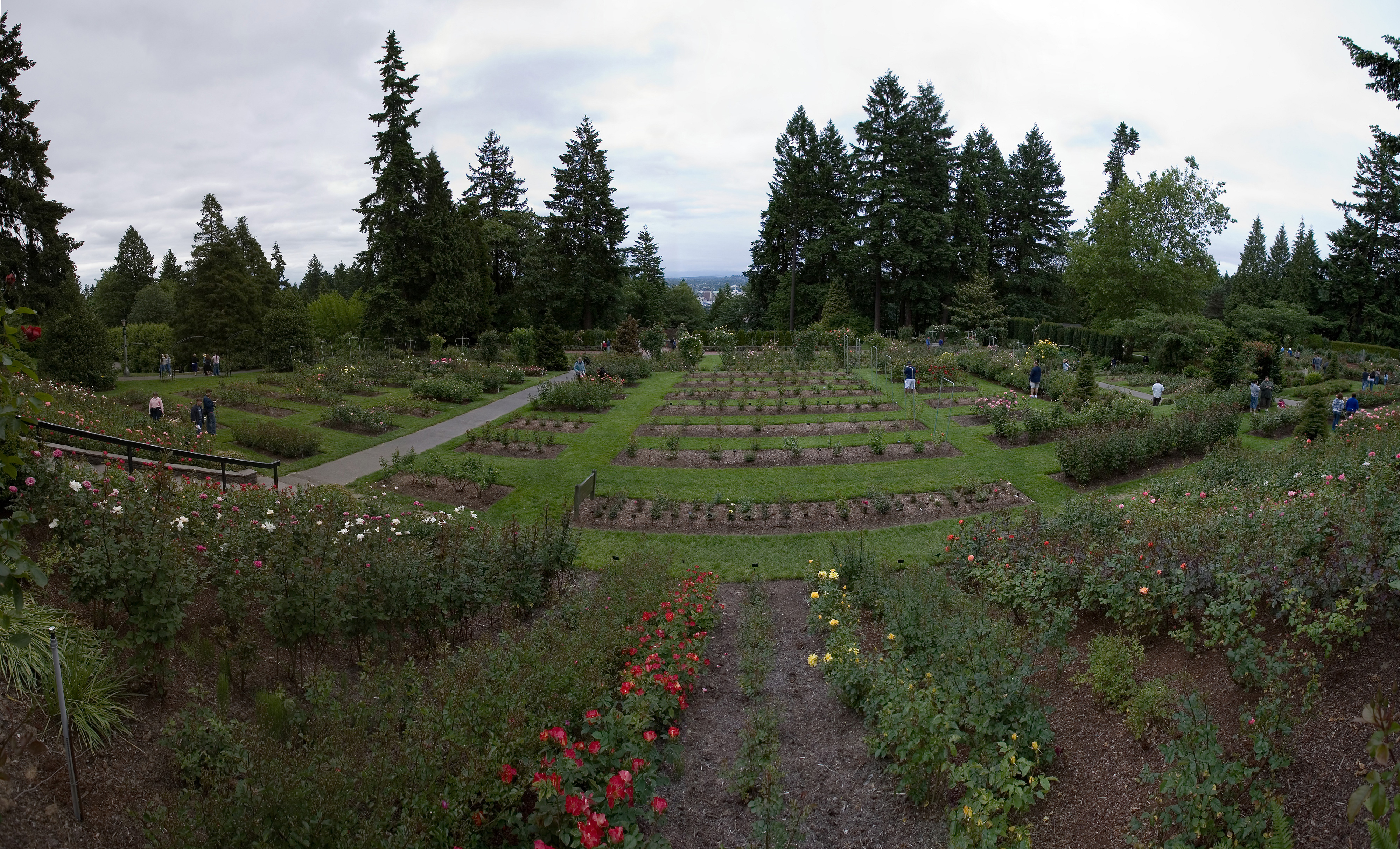 Wide angle image of the International Rose Test Gardens in Portland, Oregon.